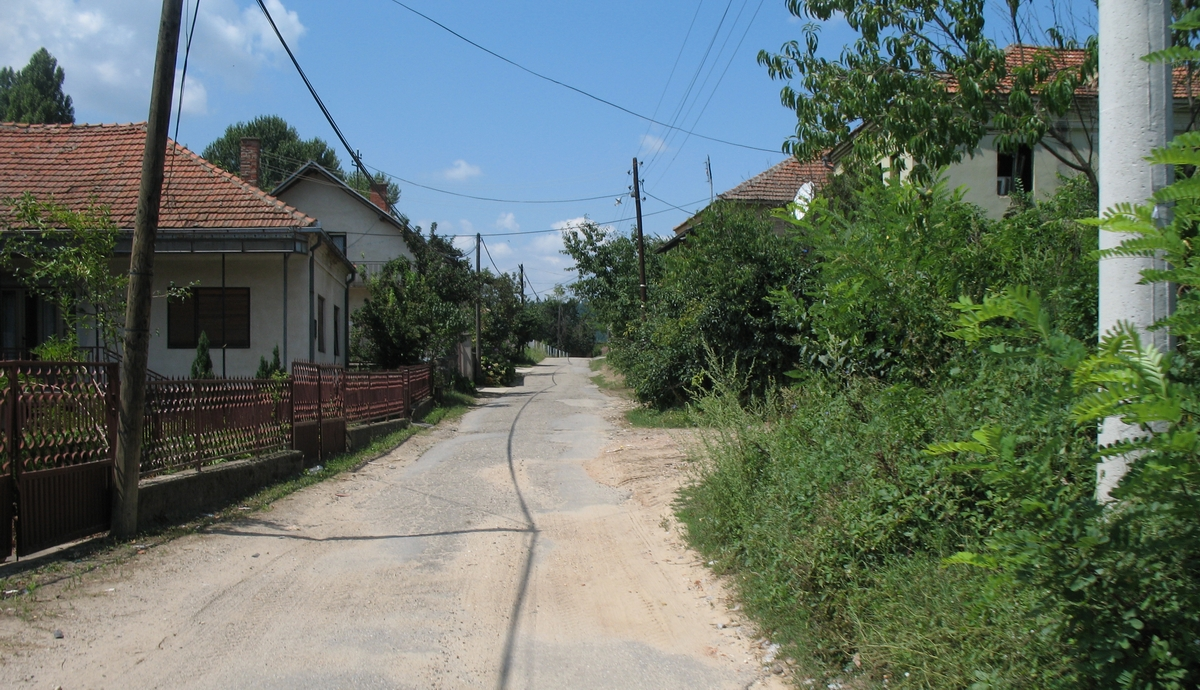 Vratna near Negotin, in Serbia